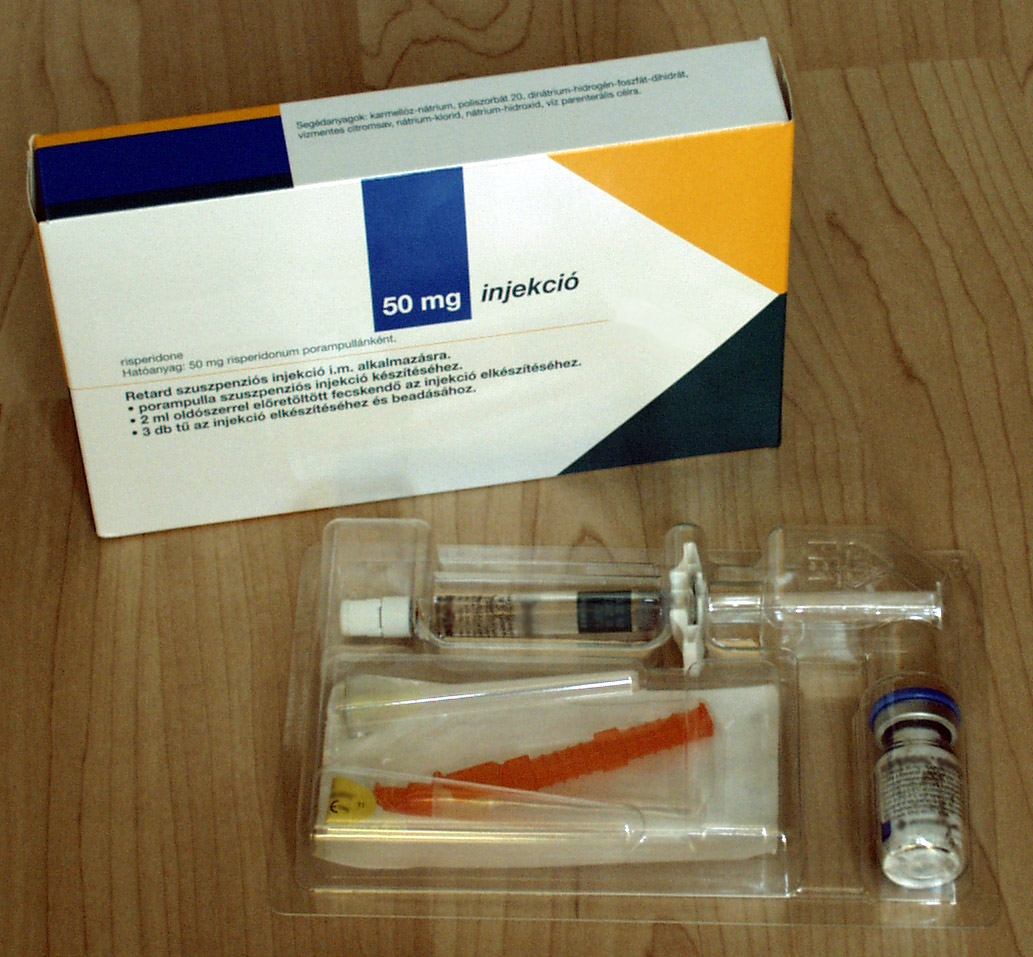 Risperidon injection syringe (according to hungarian medicine advertisement law)